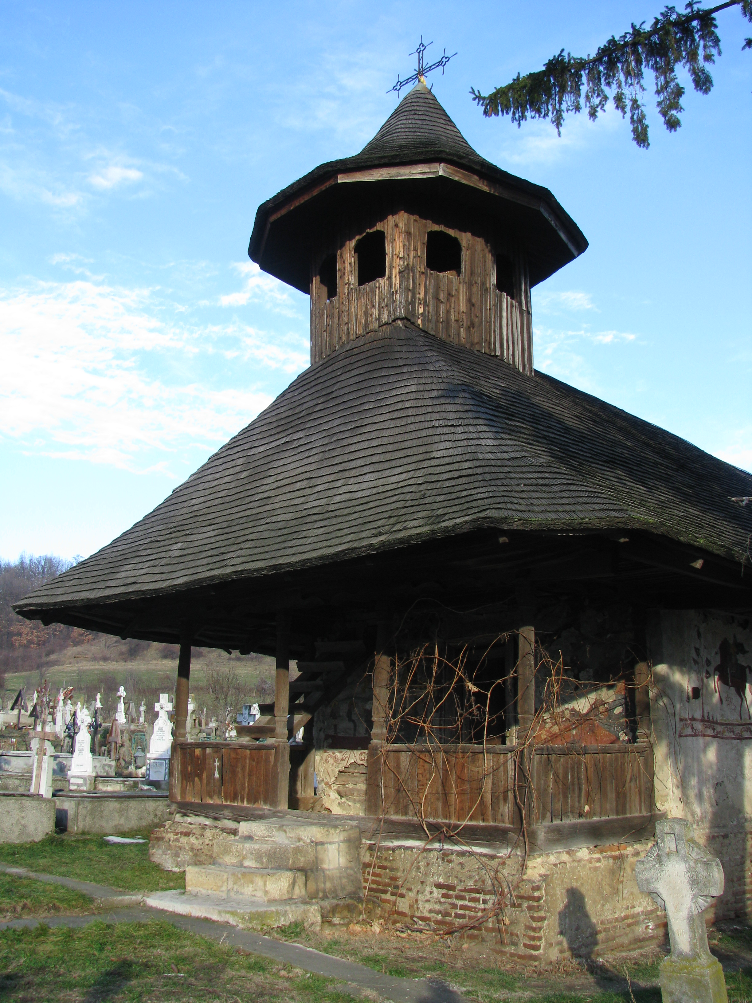 Wooden church "Nașterea Domnului" from Glâmbocata Deal village, Leordeni commune, Argeș county, Romania